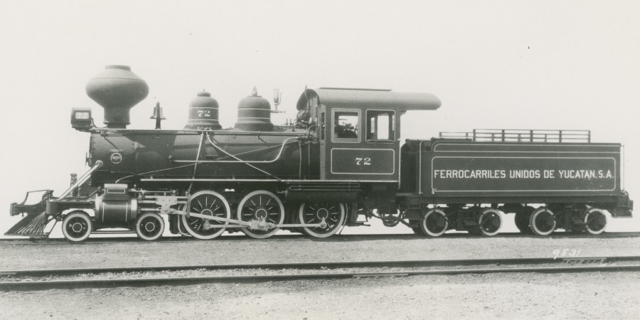 Title: F.C. Unidos de Yucatan Alternative Title: [Ferrocarril Unidos de Yucatan, Engine 72] Creator: Unknown Date: ca. 1925 Part of: of Mexico/mode/exact Place: Mexico Physical Description: 1 photographic print: gelatin silver; 13 x 18 cm File: ag1985_0366_05_unidos_r_opt.jpg Rights: Please cite DeGolyer Library, Southern Methodist University when using this file. A high-resolution version of this file may be obtained for a fee. For details see the web page. For other information, . For more information and to view the image in high resolution, View the rel=